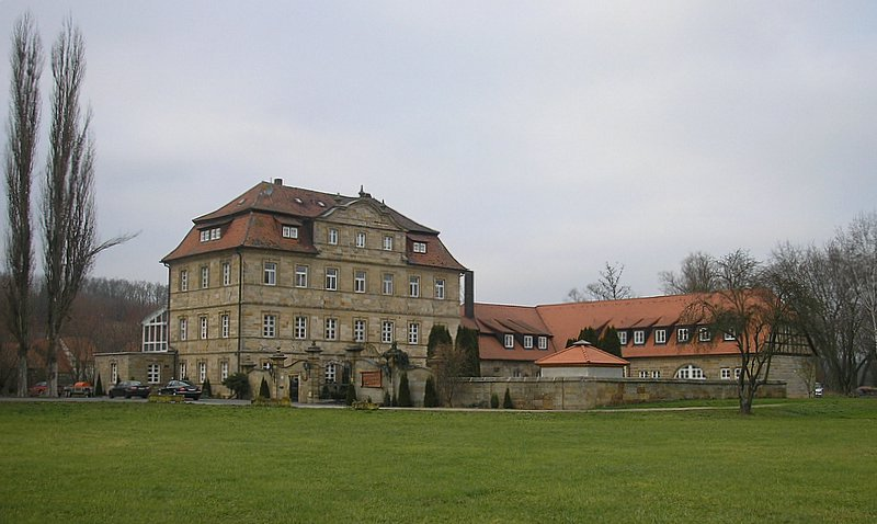 Gleusdorf castle near Ebern (Lower Franconia, Bavaria, Germany). Total view from the east. Own photo, Dec. 2006